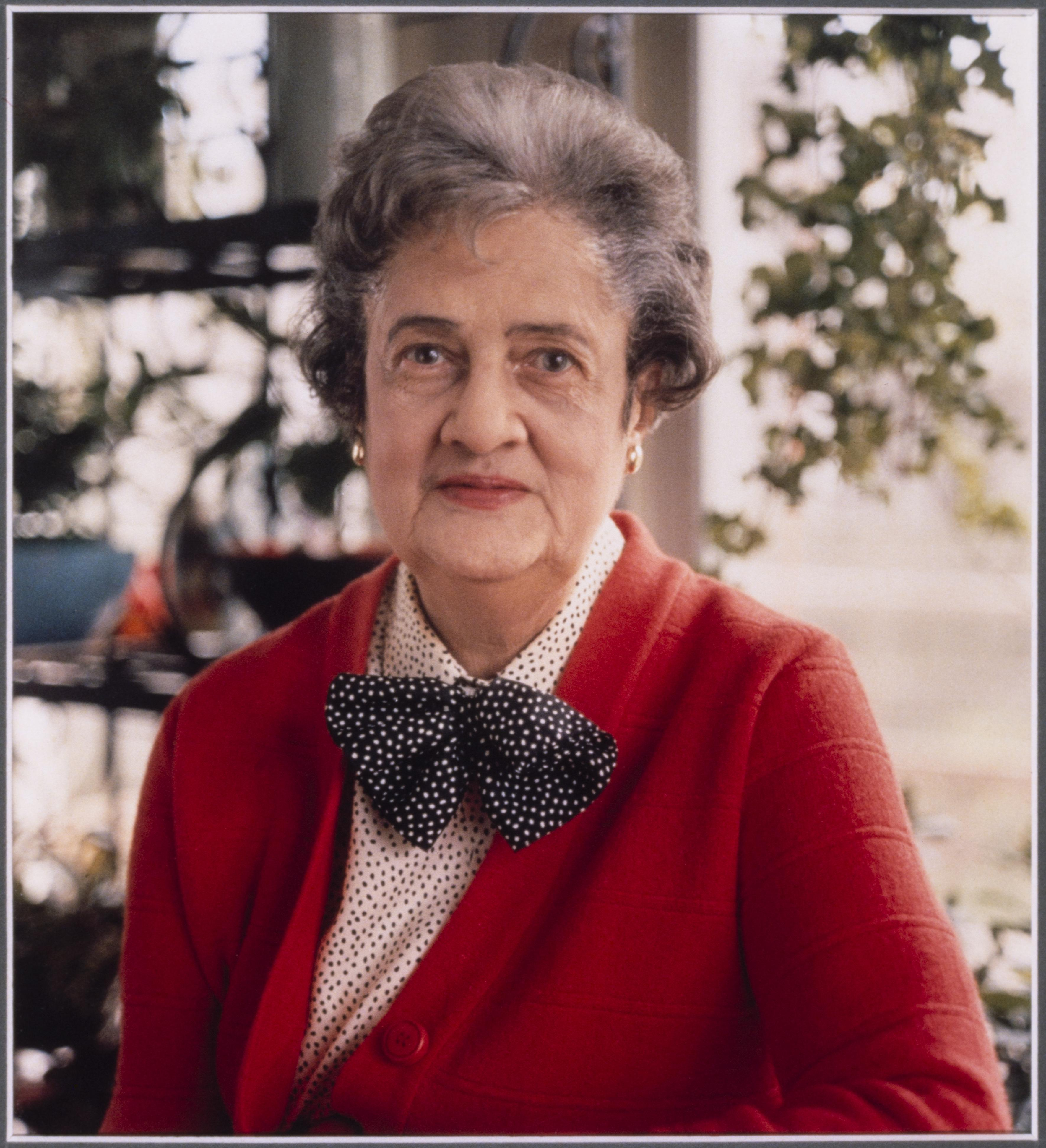 Biography: As a child, Elizabeth Cardozo Barker spent her summers playing and working in and around the beauty shop run by her grandmother, Emma Jones Warrick, in Atlantic City, N.J. The founder of Cardozo Sisters Hairstylists in Washington, D.C., in 1928, Mrs. Barker was assisted in the business by two sisters, Margaret Cardozo Holmes and Catherine Cardozo Lewis (both BWOHP interviewees). The firm was influential in the growth of the Black beauty industry in the city, providing their employees with first-rate training and optimum conditions for career advancement. As a member of the Board of Cosmetology, Mrs. Barker saw to it that all beauty and barber shops were required to serve customers of all races; she was also largely responsible for the integratlon of beauty schools in the area and for the improvement of operator education, insisting that certificates be granted for various levels of expertise. Description: The Black Women Oral History Project interviewed 72 African American women between 1976 and 1981. With support from the Schlesinger Library, the project recorded a cross section of women who had made significant contributions to American society during the first half of the 20th century. Photograph taken by Judith Sedwick Repository: Schlesinger Library on the History of Women in America. Collection: Black Women Oral History Project Research Guide: Questions?